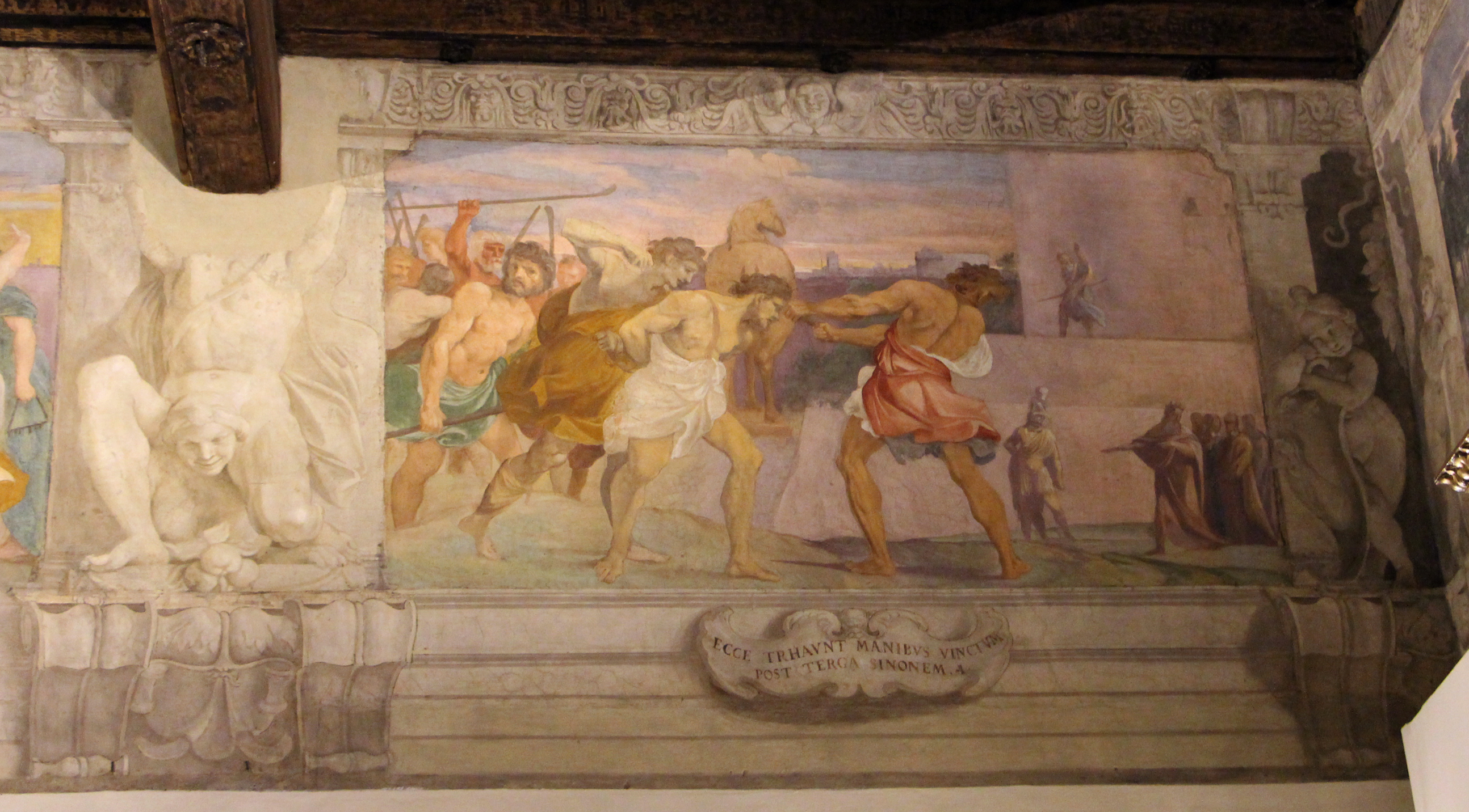 Frieze of Aeneas by the Carracci family